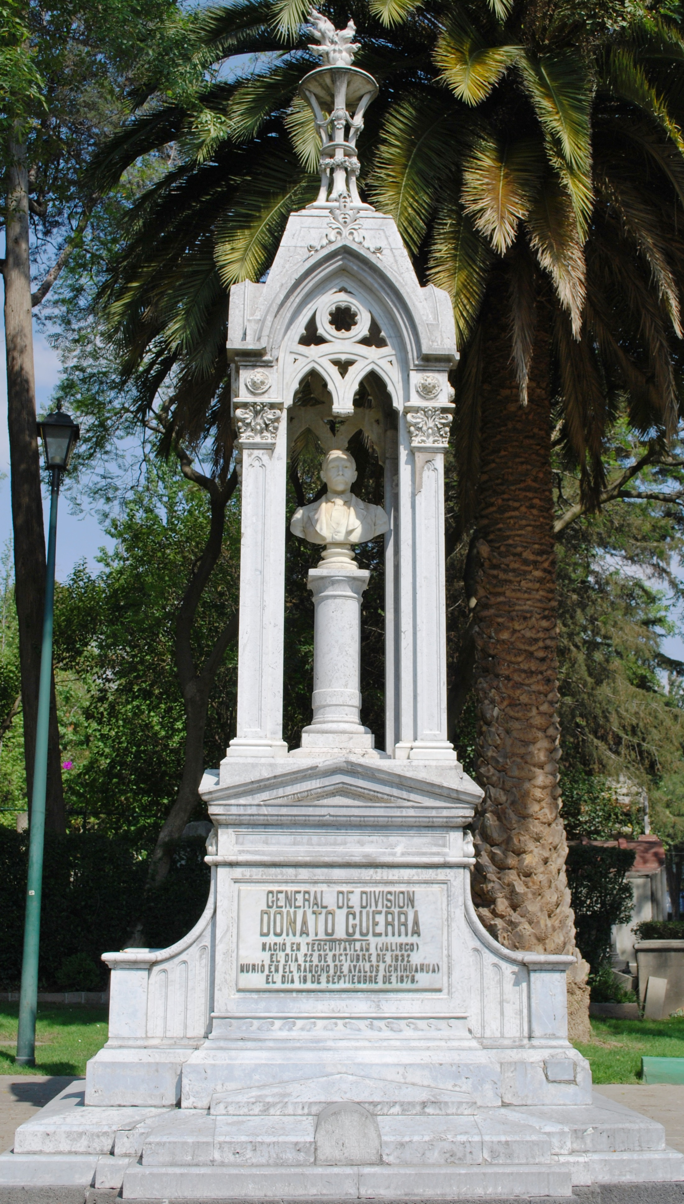 Tomb of General Donato Guerra in the Panteon Civil de Dolores cemetery in Mexico City